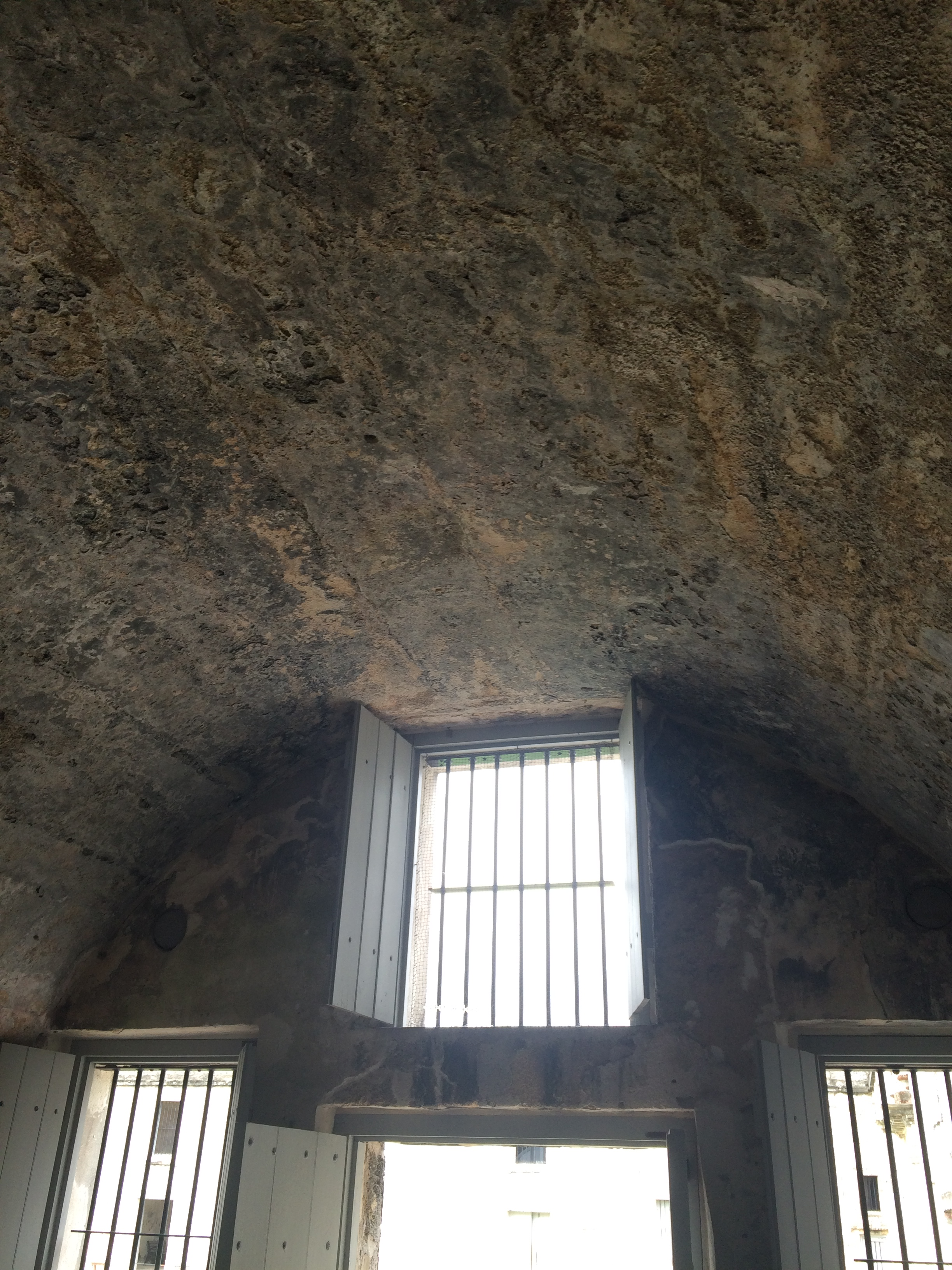 Vaulted ceiling as seen facing the courtyard from the interior of the Castillo.